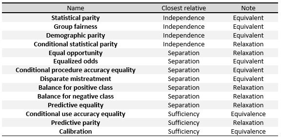 Relation between fairnes measures in machine learning as shown in Barocas et al.